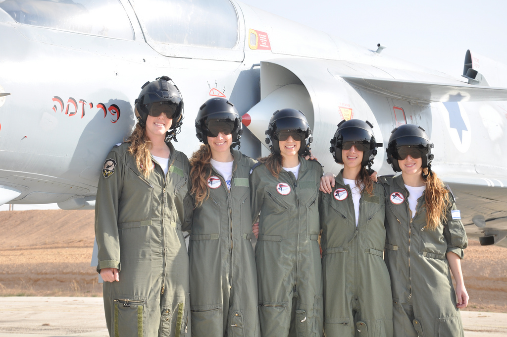 December 28, 2011 The 163rd IAF Flight course graduates this week with five female pilots expected to finish the coure, each one specializing in a different field. Never in the history of IAF flight courses have so many female soldiers graduated from this prestigious course. The Israel Defense Forces Facebook page The Israel Defense Forces blog Follow us on Twitter